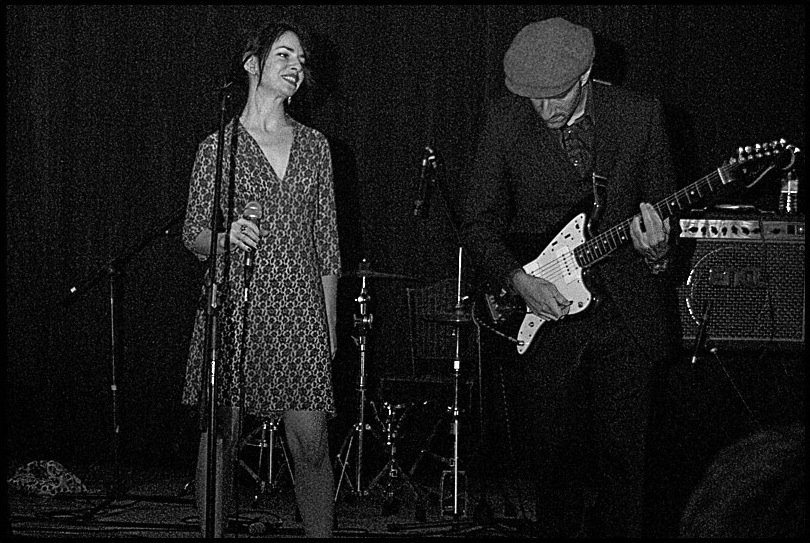 Photo of musical group Elysian Fields.